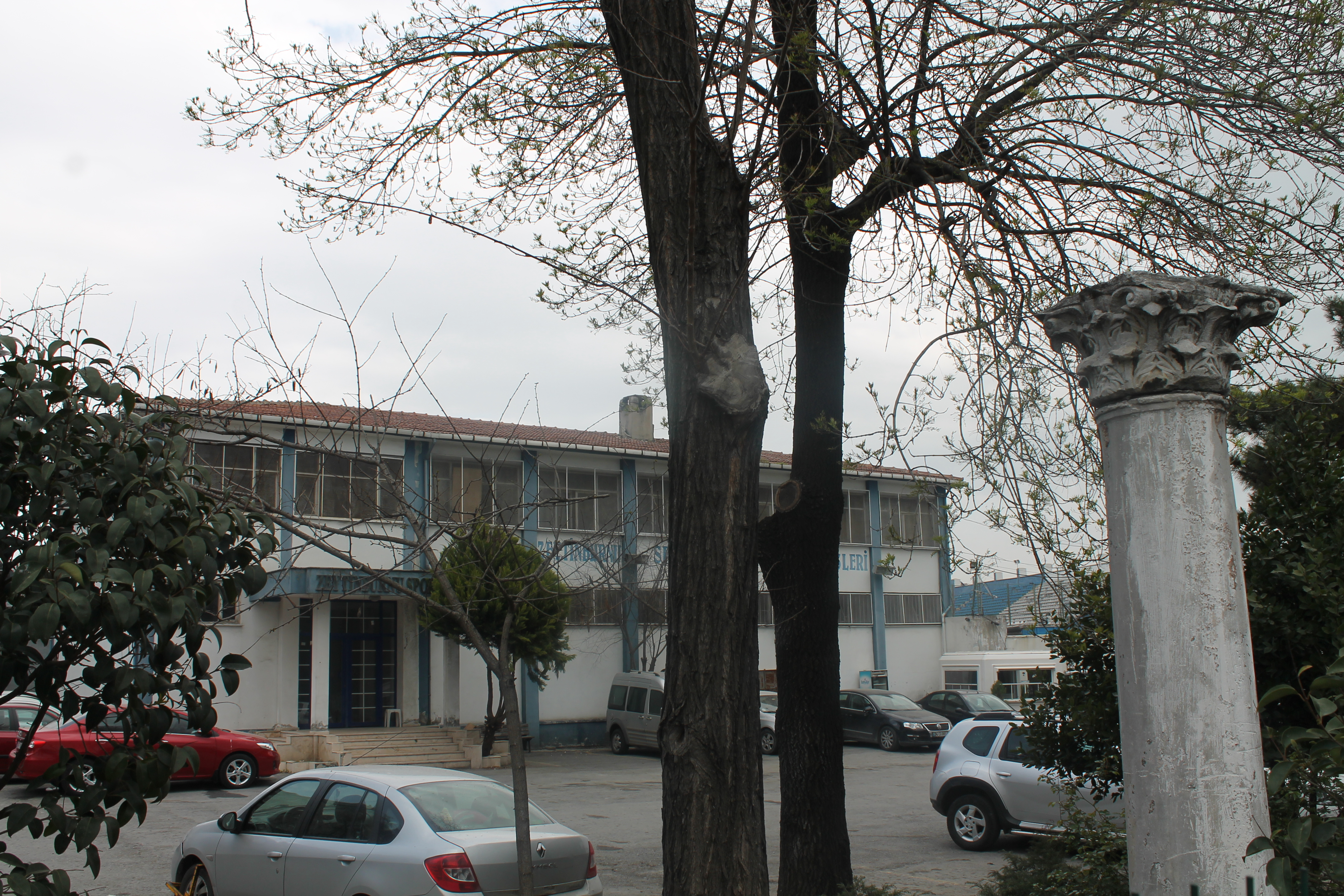 Zeytinburnuspor Klubü